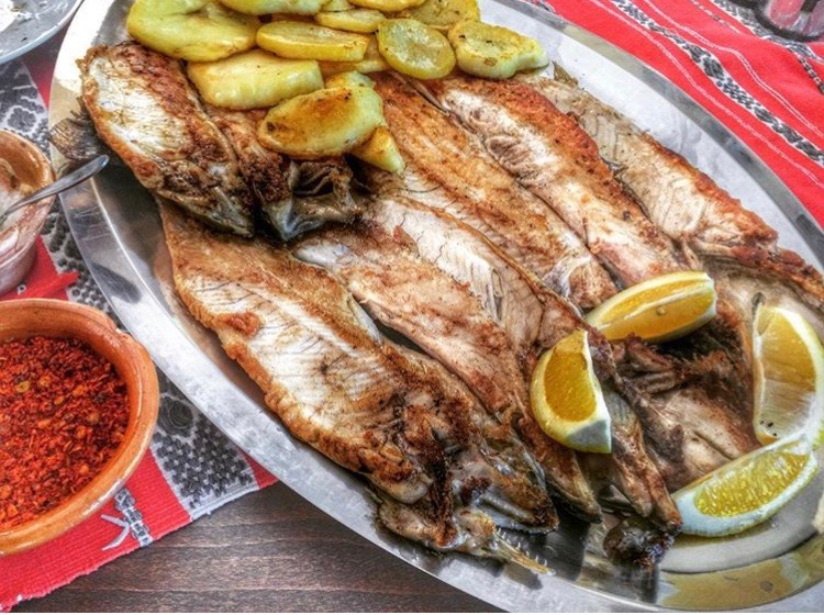 Ohrid trout